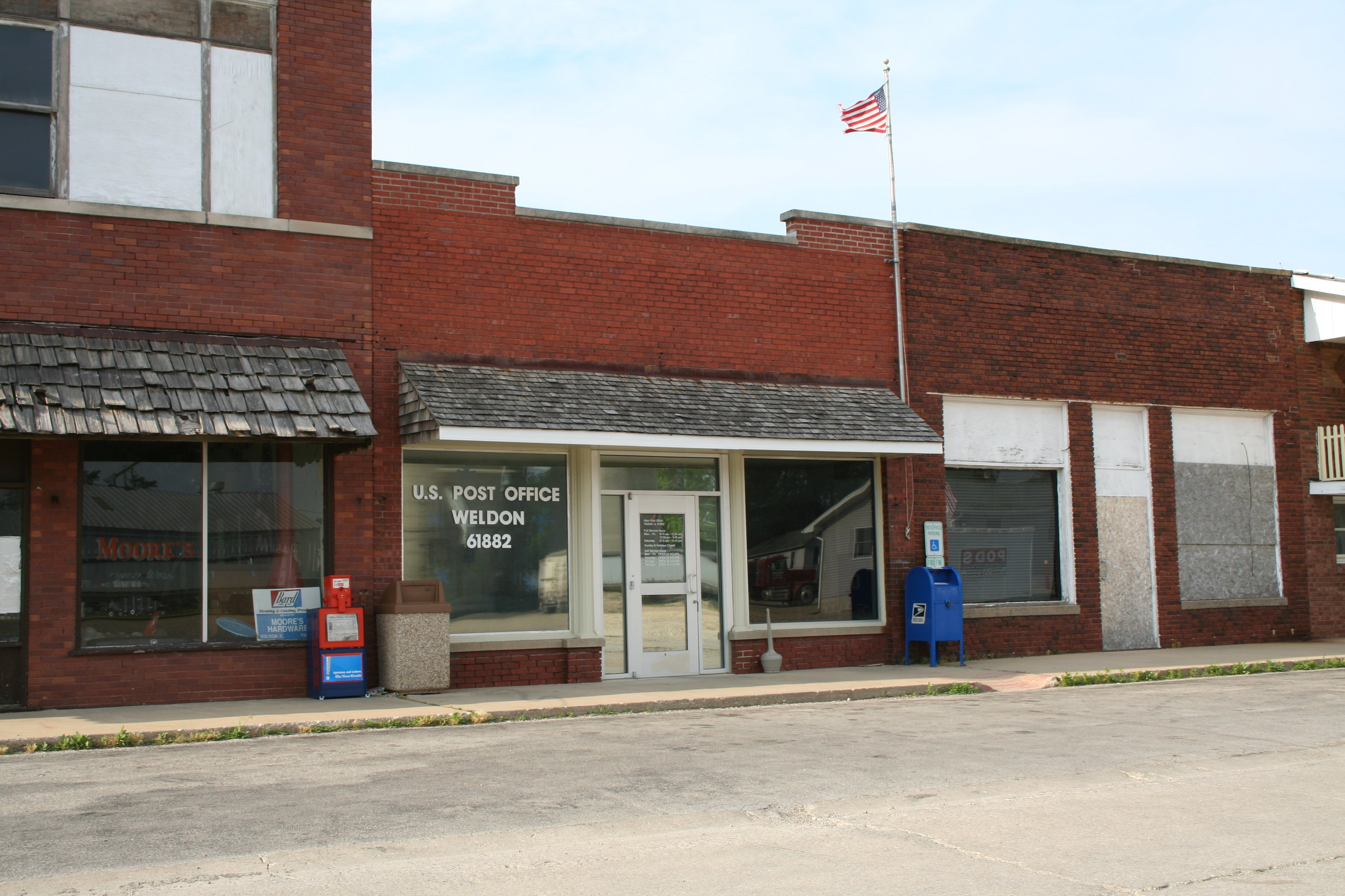 Weldon, Illinois Post Office